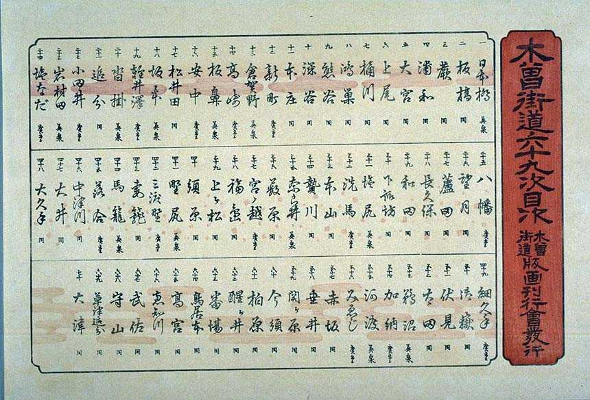 Title page of Kisokaido ukioe prints by Hiroshige